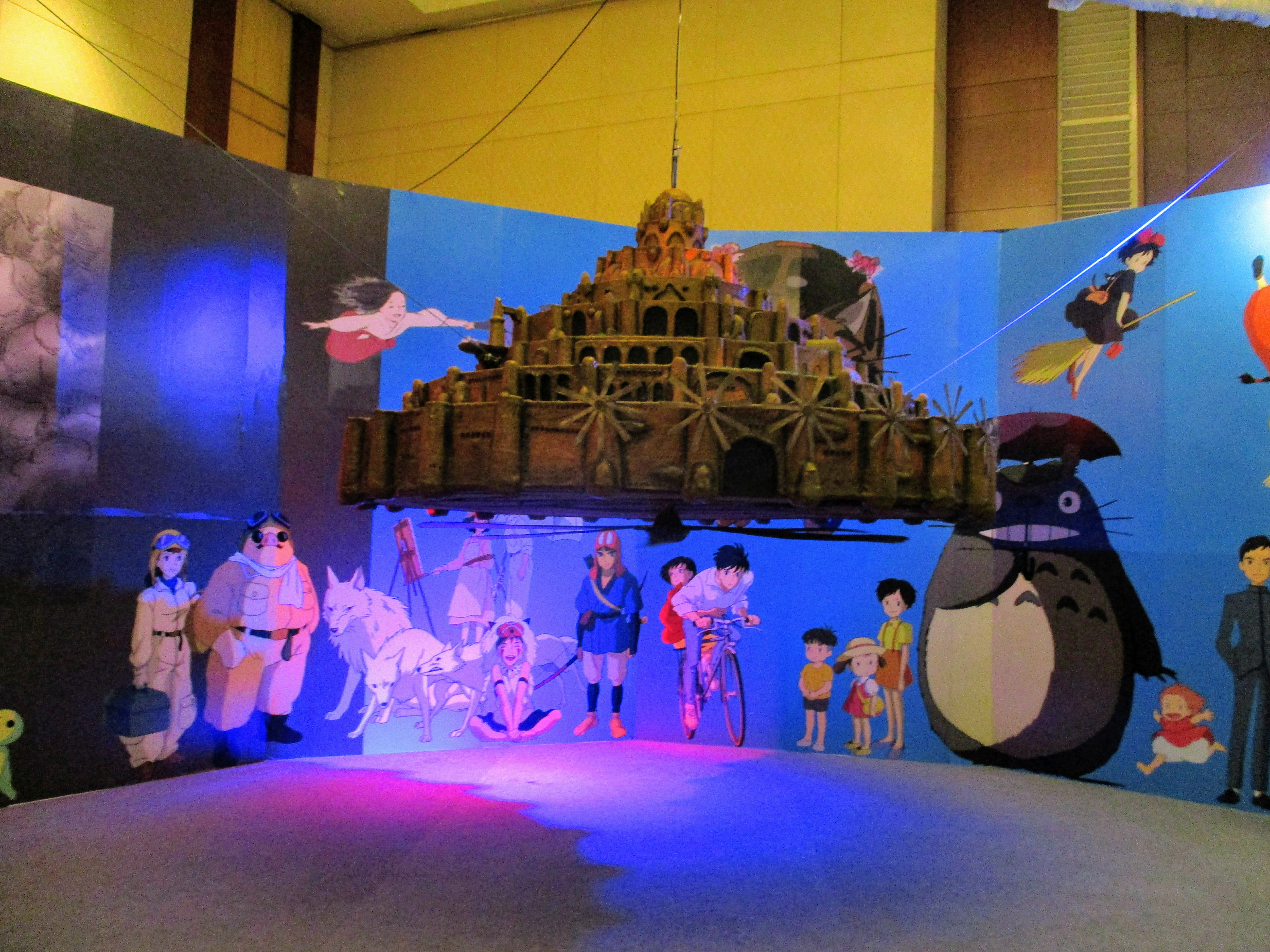 The World of Ghibli Jakarta 2017 - Castle in the Sky 客家語/Hak-kâ-ngî: thiên-khûng chṳ̂ sàng (天空之城) chhai 2017 ngièn Ghibli Sṳ-kie （Jakarta）